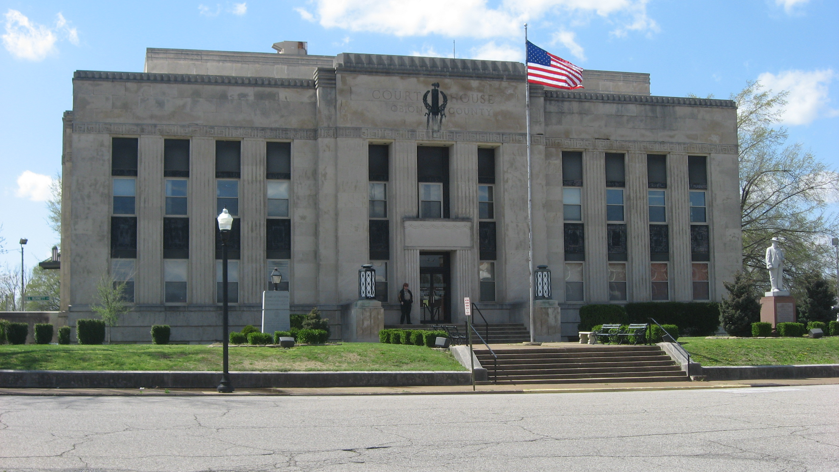 Front of the Obion County Courthouse, located at the junction of Third and Washington Streets in Union City, Tennessee, United States. Built in 1939, it is listed on the National Register of Historic Places.